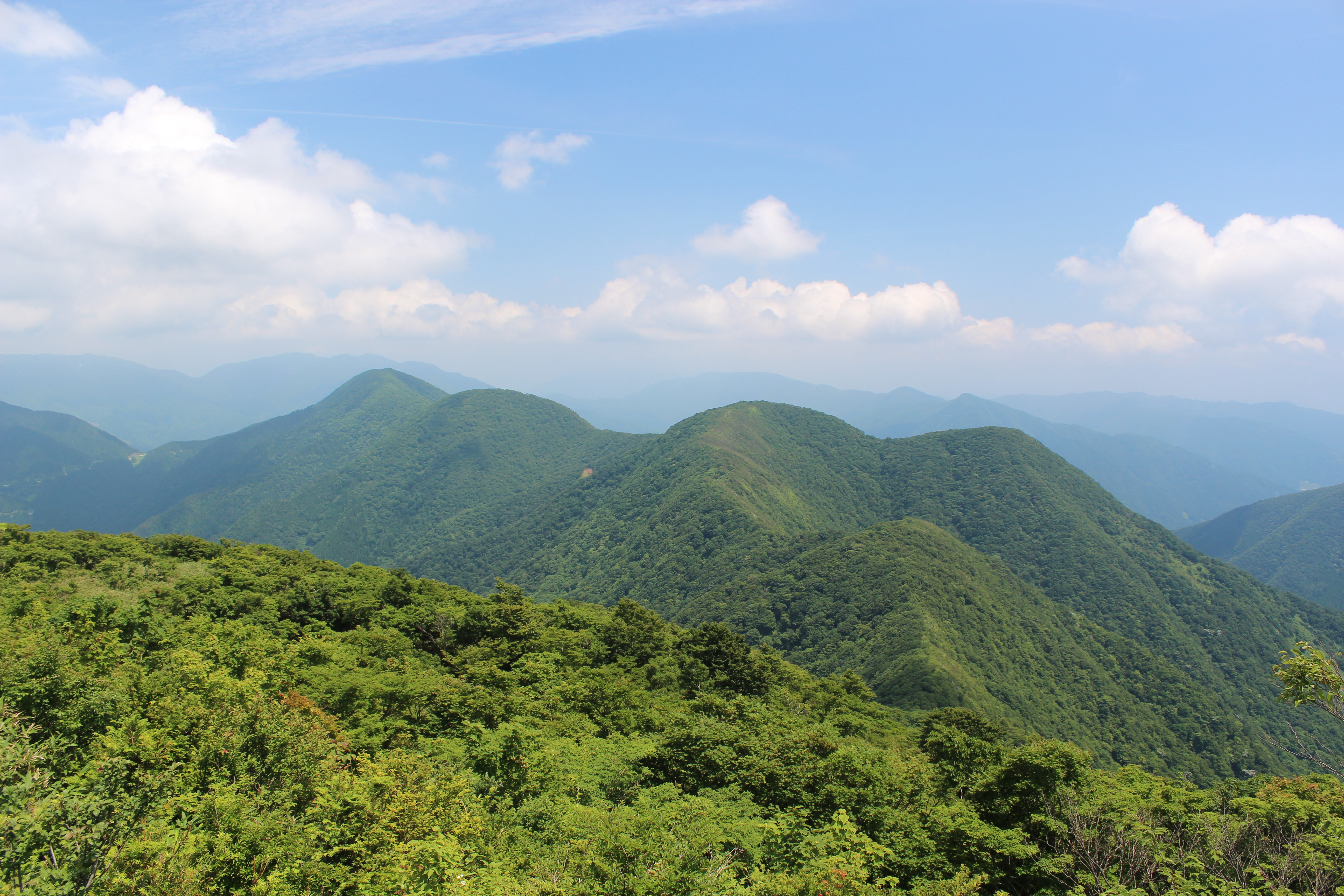 North ridge of Mount Ibuki seen from Shizumagahara, in Gifu prefecture and Shiga prefecture, Japan.